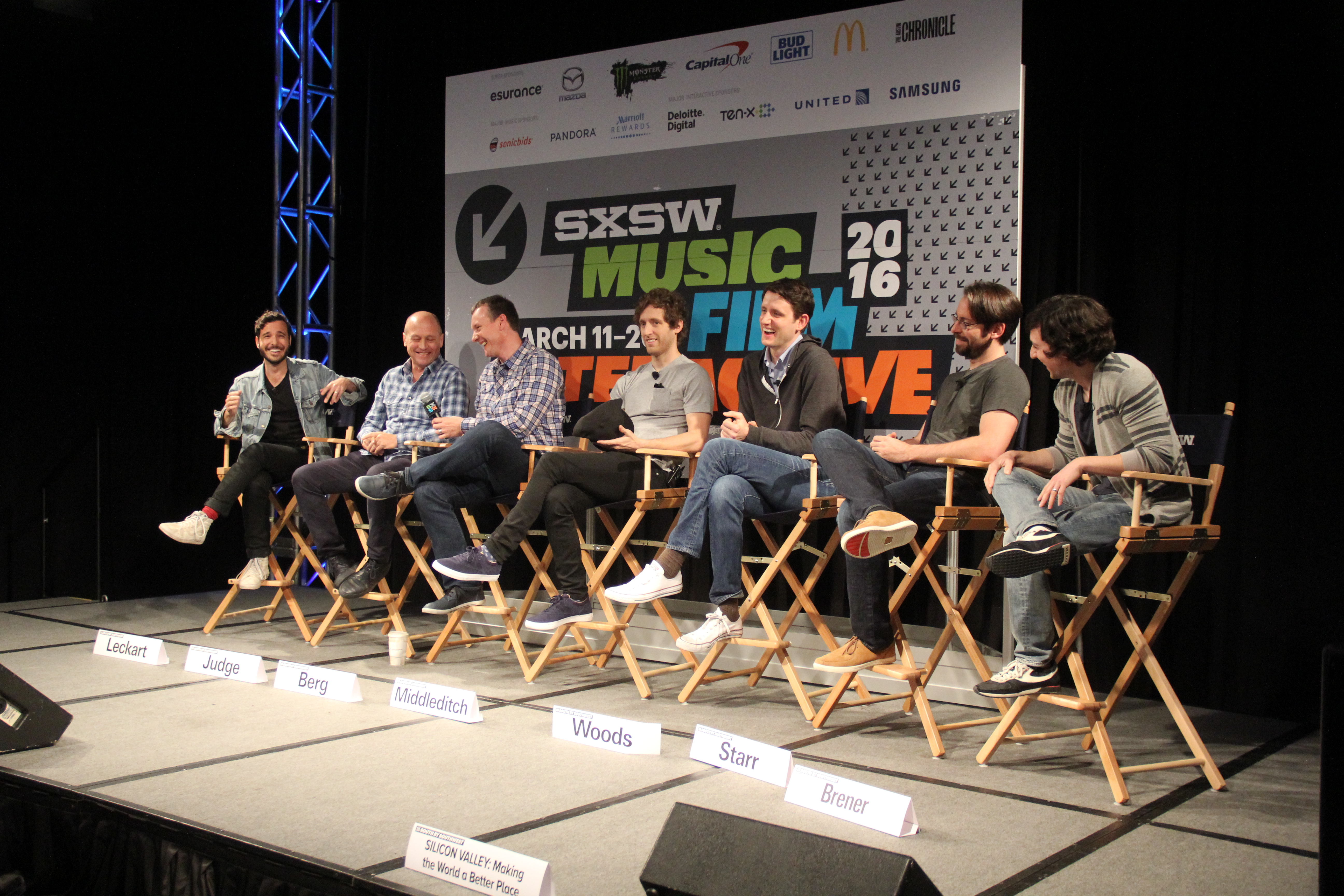 "SILICON VALLEY: Making the World a Better Place", a panel at SXSW 2016 starring the cast and creators of Silicon Valley (TV series). From left to right, pictured is Steven Leckart, show creator Mike Judge, executive producer Alec Berg, Thomas Middleditch (plays Richard Hendricks), Zach Woods (plays Donald "Jared" Dunn), Martin Starr (plays Bertram Gilfoyle), and Josh Brener (plays Nelson "Big Head" Bighetti).